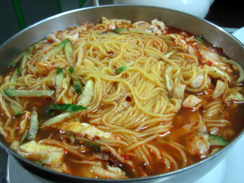 Corn noodle soup (溫麵) from the Yiling Ginseng Chicken Soup Restaurant in Yanji. This huge bowl costs just 5RMB.